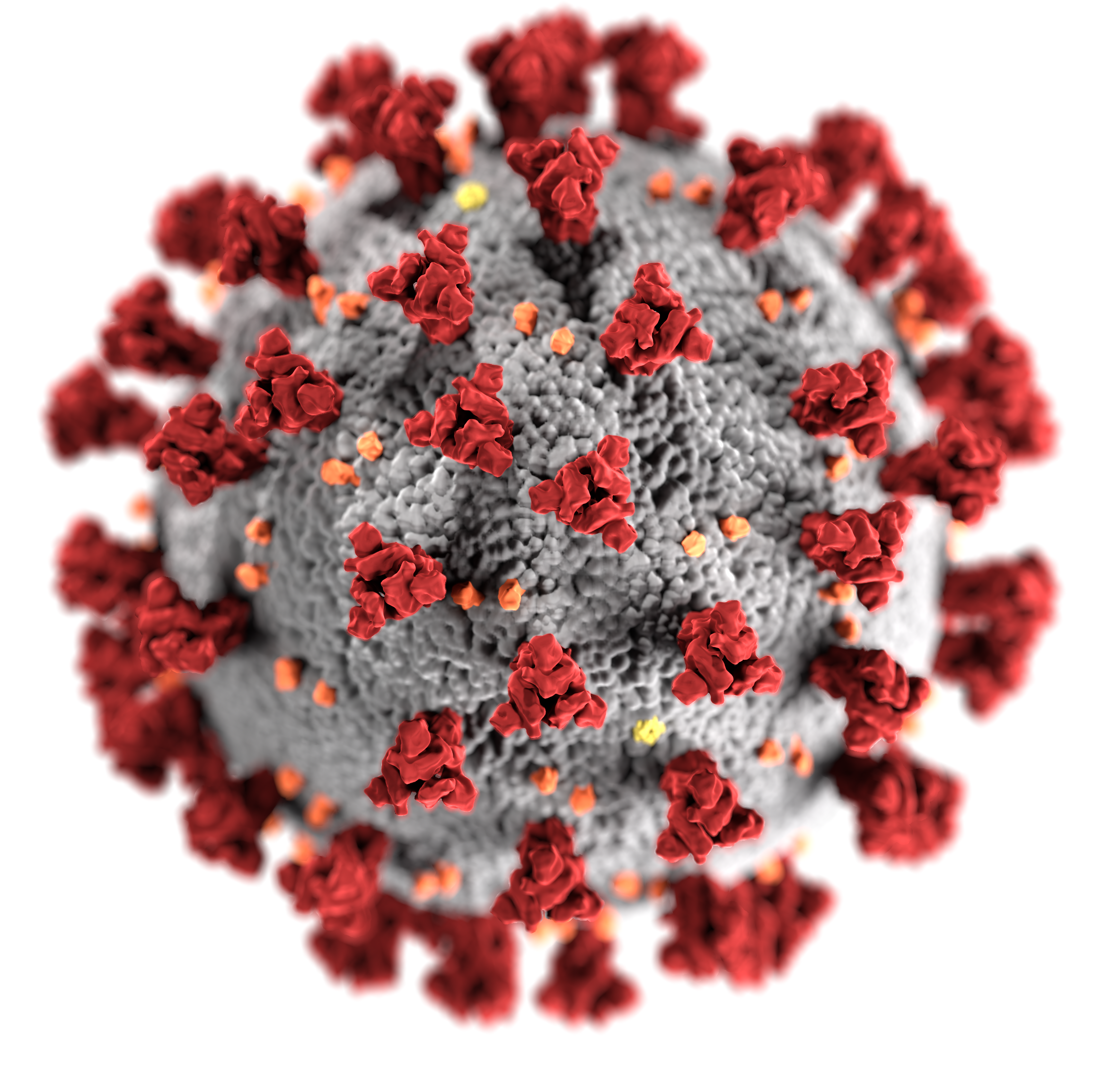 This illustration, created at the Centers for Disease Control and Prevention (CDC), reveals ultrastructural morphology exhibited by the 2019 Novel Coronavirus (2019-nCoV). Note the spikes that adorn the outer surface of the virus, which impart the look of a corona surrounding the virion, when viewed electron microscopically. This virus was identified as the cause of an outbreak of respiratory illness first detected in Wuhan, China.